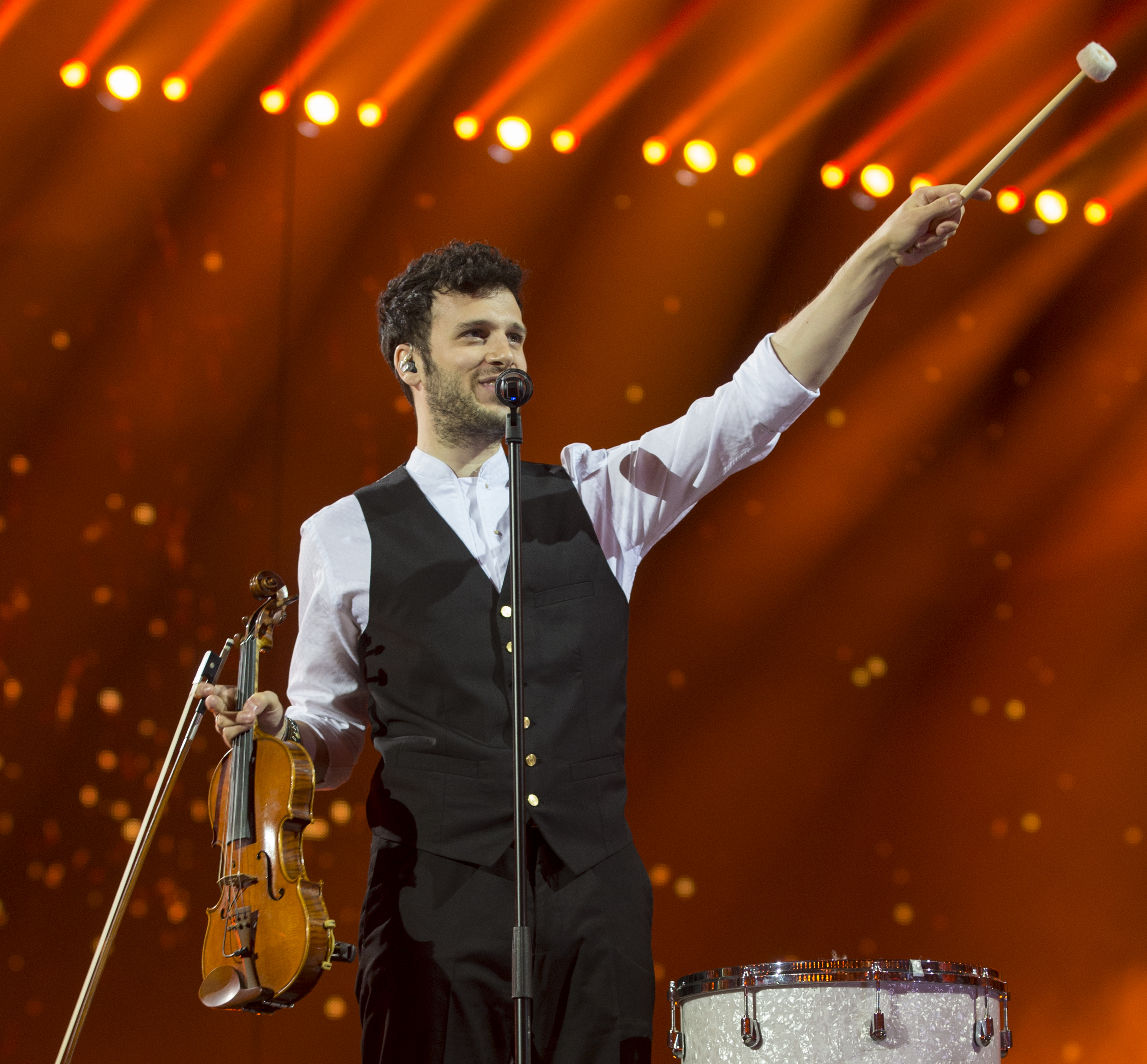 Sebalter representing Switzerland with the song "Hunter of Stars" during the first dress rehearsal of the second semi final of the Eurovision Song Contest 2014 Copenhagen. (Help translate this text)